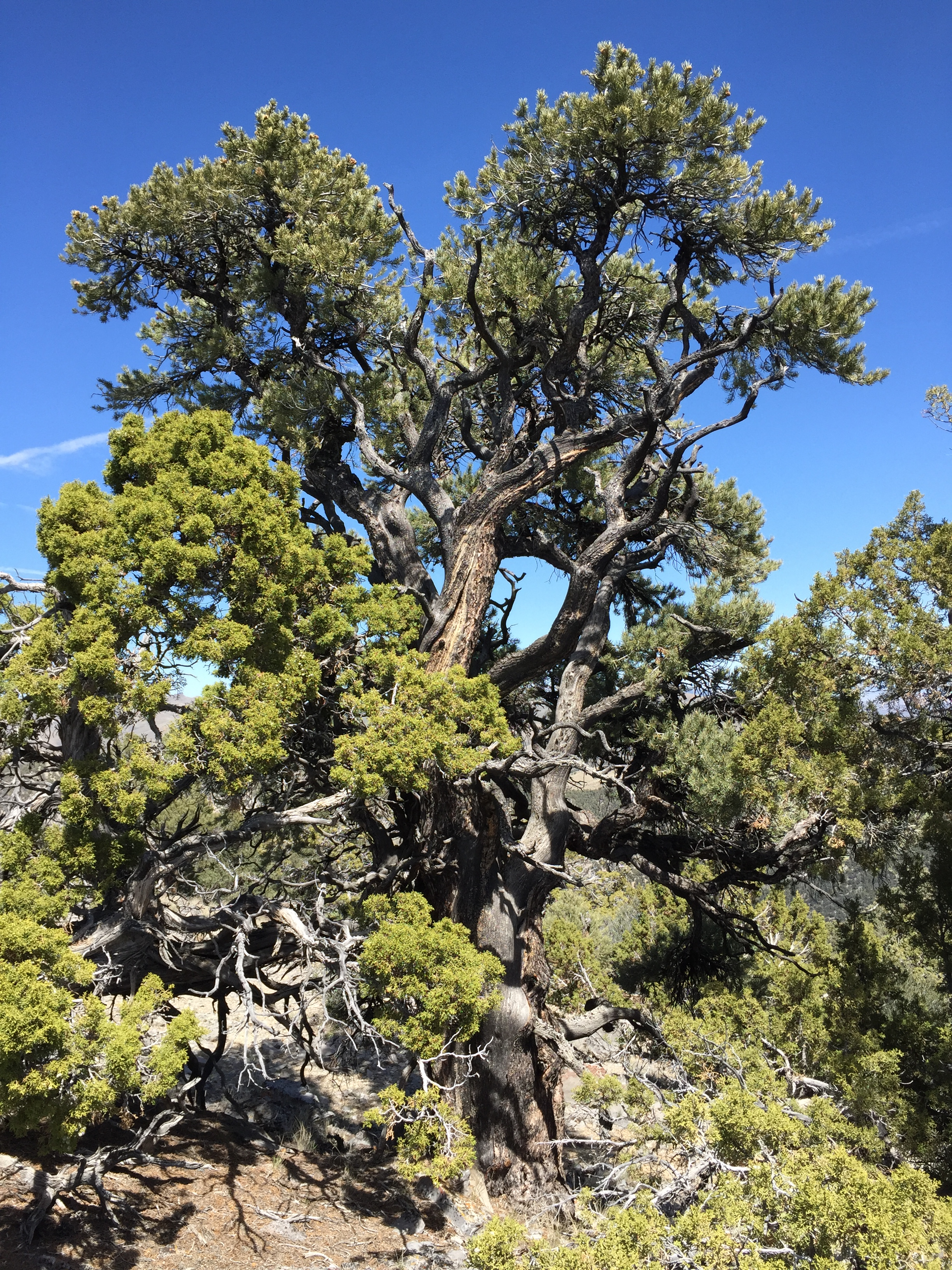 An older Single-leaf Pinyon and accompanying Utah Juniper on the south wall of Maverick Canyon, Nevada